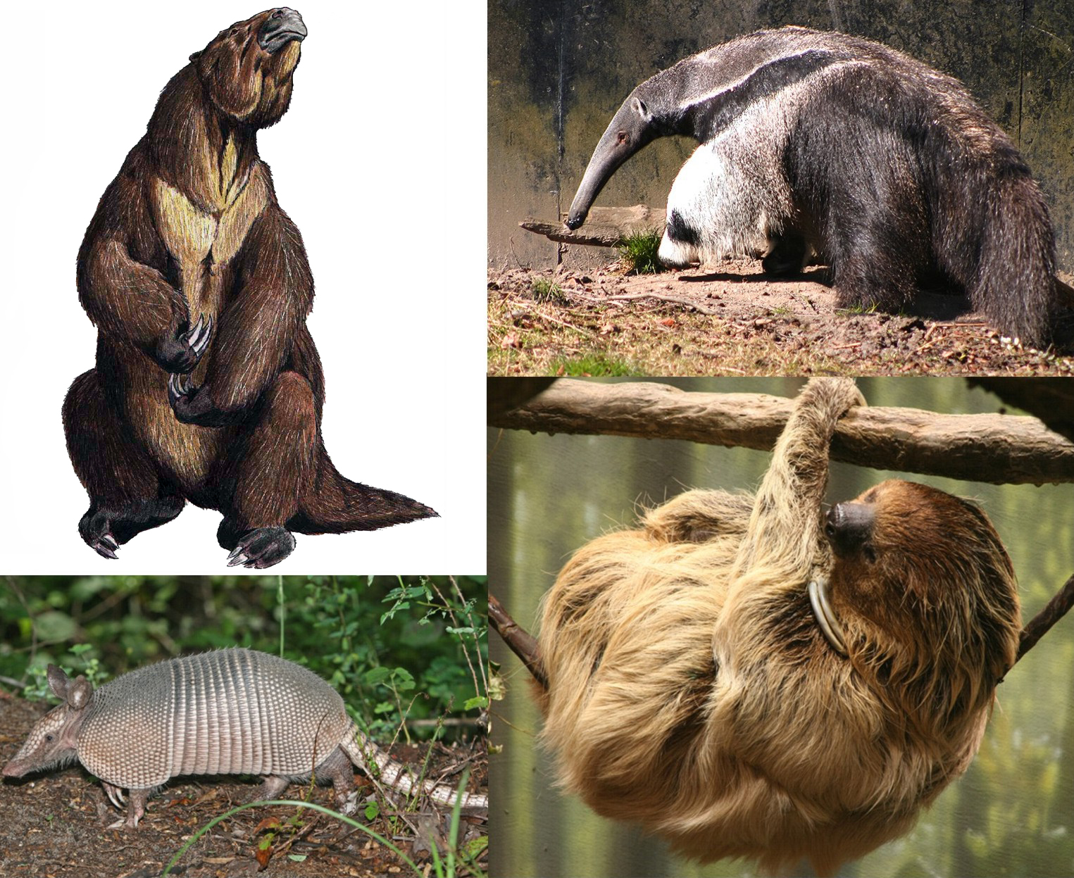 Xenarthra